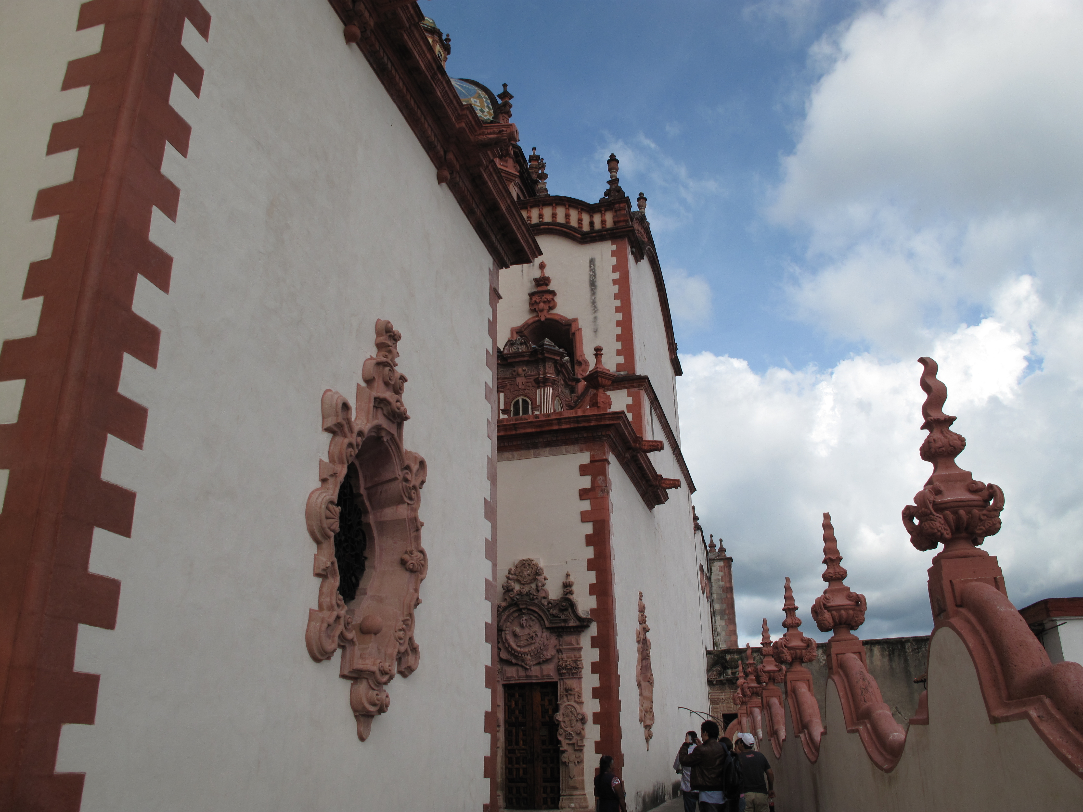 The pink stone from the temple of Santa Prisca is called cantera rosa and it is originary from Taxco, Guerrero.